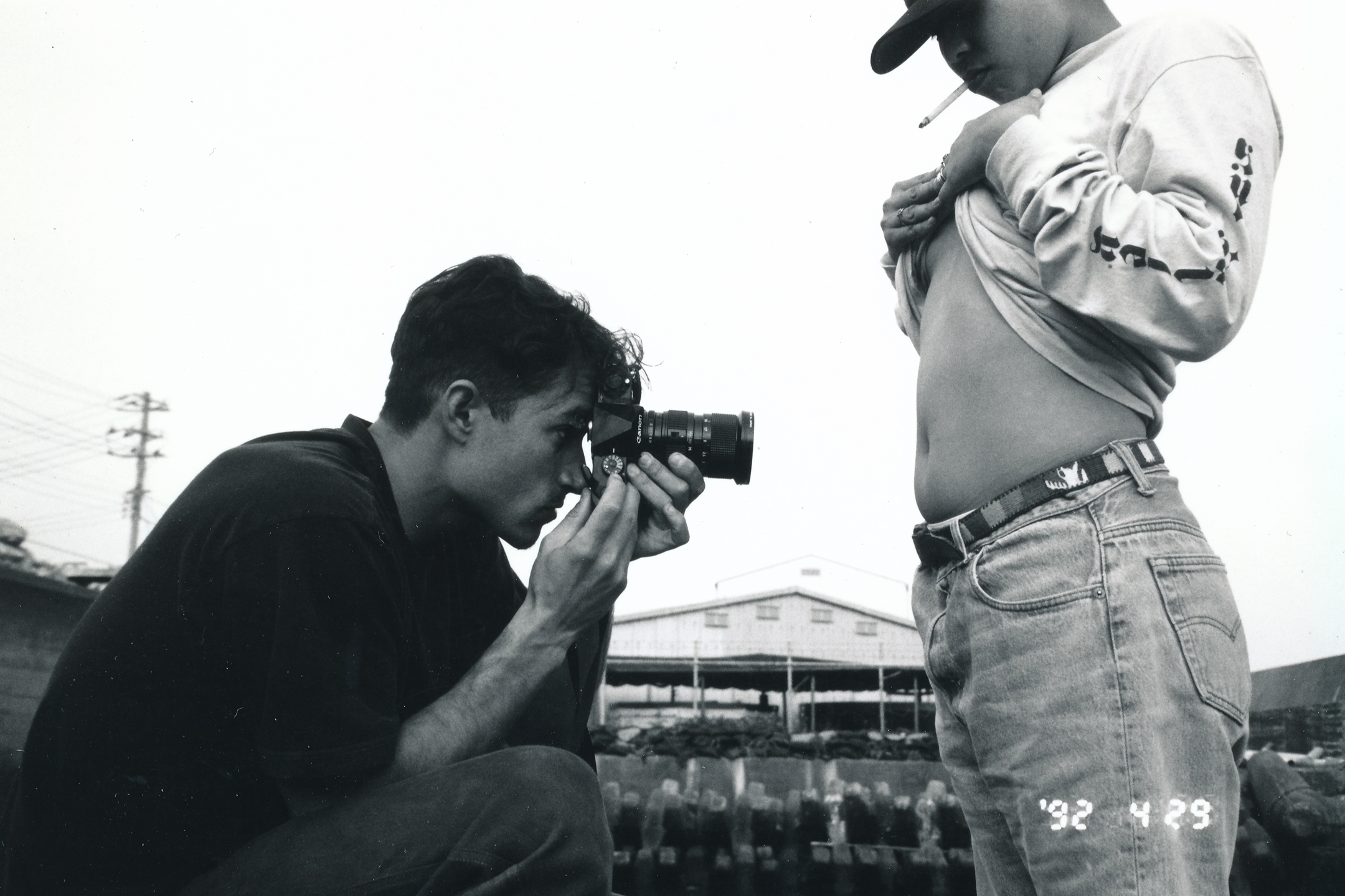 Greek-Californian artist-photographer-songwriter, Ithaka Darin Pappas, on April 29, 1992 in Awa-Kamogawa - Chiba Prefecture, Japan. (Photo) Here he is seen working on his navel portrait photography series "Umbilicus". The project included over one hundred and twenty-five 'navel portraits' taken in 1992 in Tokyo and the surrounding cities. In 1993, the "Umbilicus" project appeared in the prestigious Japanese photography quarterly publication called Deja-Vu (Issue #11) along with features about legendary photographers; Inose Kou, Frederick Sommer and Nobuyoshi Araki. In 1996, an article about "Umbilicus" and Ithaka Darin Pappas apeared as the cover story of Speak Magazine - USA. It was Speak Magazine's worst selling issue in the magazine's history. Also in 1996, "Umbilicus" was exhibited at the Instituto Português da Juventude in Lisbon, Portugal. And in 2020, a short documentary about the "Umbilicus" project was made by Sweatlodge Films in association with the photographer.